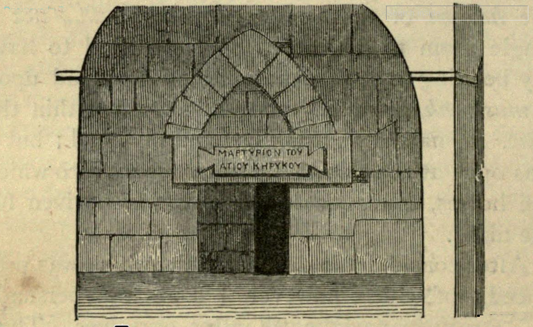 Sketch of doorway surmounted by a lintel with an ancient Greek inscription at the medieval castle in Mejdel Yaba in 1850. The discovery of a Greek inscription was made by James Finn, British Consul in Jerusalem. He visited the village and castle at Mejdal Yaba in 1850. When surveying a church attached to the castle he saw a Greek inscription upon a lintel. This Greek Inscription on a winged tablet on top of a side doorway at a building attached to castle built on the ruins of Mirabel fortress, a medieval Crusader stronghold of the Lordship of Mirabel (Migdal/Mejdal fortress). The Ancient Greek inscription reads: «ΜΑΡΤΥΡΙΟΝ ΤΟΥ ΑΓΙΟΥ ΚΗΡΥΚΟΥ» In his book Byeways in Palestine, Finn provides along with a sketch of the entrance his own English translation of the Greek inscription: Martyr Memorial Church of the Holy Herald-i.e., John the Baptist. (Byeways in Palestine) Finn's rendition of the inscription in Greek letters is correct. He interpretes the term Holy Herald formerly used as a designation of John the Baptist ascribing to him in the first place the office of a herald, preacher (gr. ΚΗΡΥΞ) instead of baptizer, i.e. a prophet heralding the coming of Jesus. Literally, however, one would translate «ΜΑΡΤΥΡΙΟΝ ΤΟΥ ΑΓΙΟΥ ΚΗΡΥΚΟΥ» as Martyrdom of the Holy Herald.